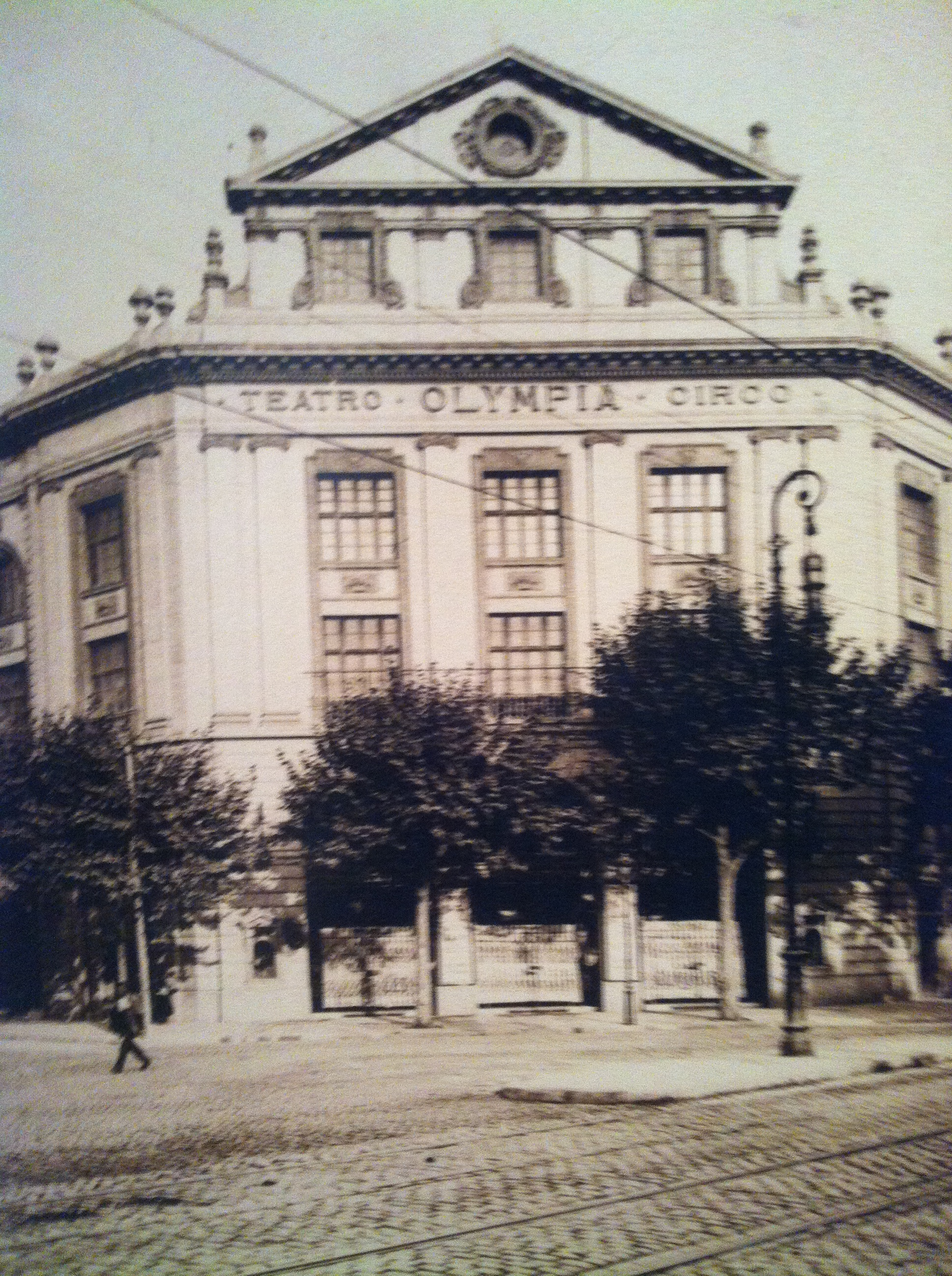 Pictures of an exhibit about The Paral·lel avenue in Barcelona that took place in CCCB cultural center between october 2012 and feb 2013. El Paral·lel emerges from the project to extend the city designed by Ildefons Cerdà. From its birth, a series of contradictory urban planning regulations facilitated the appearance of ephemeral buildings and the conversion of this street into a dense area of leisure and entertainment. The result was a leisure district for the masses, perfectly comparable to those existing in other major European urban agglomerations at that time, but that immediately became a genuine cultural expression of the social and political conflict that characterised the Barcelona of the early 20th century. El Paral·lel generated shows with perfectly differentiated contents and formats, made up by the audience and the artists. This exhibition will explain, therefore, why a new entertainment area emerged in the city, leading the weight of the theatrical axis to move from the Plaça Catalunya-Passeig de Gràcia area to the Nou de la Rambla-Paral·lel area.